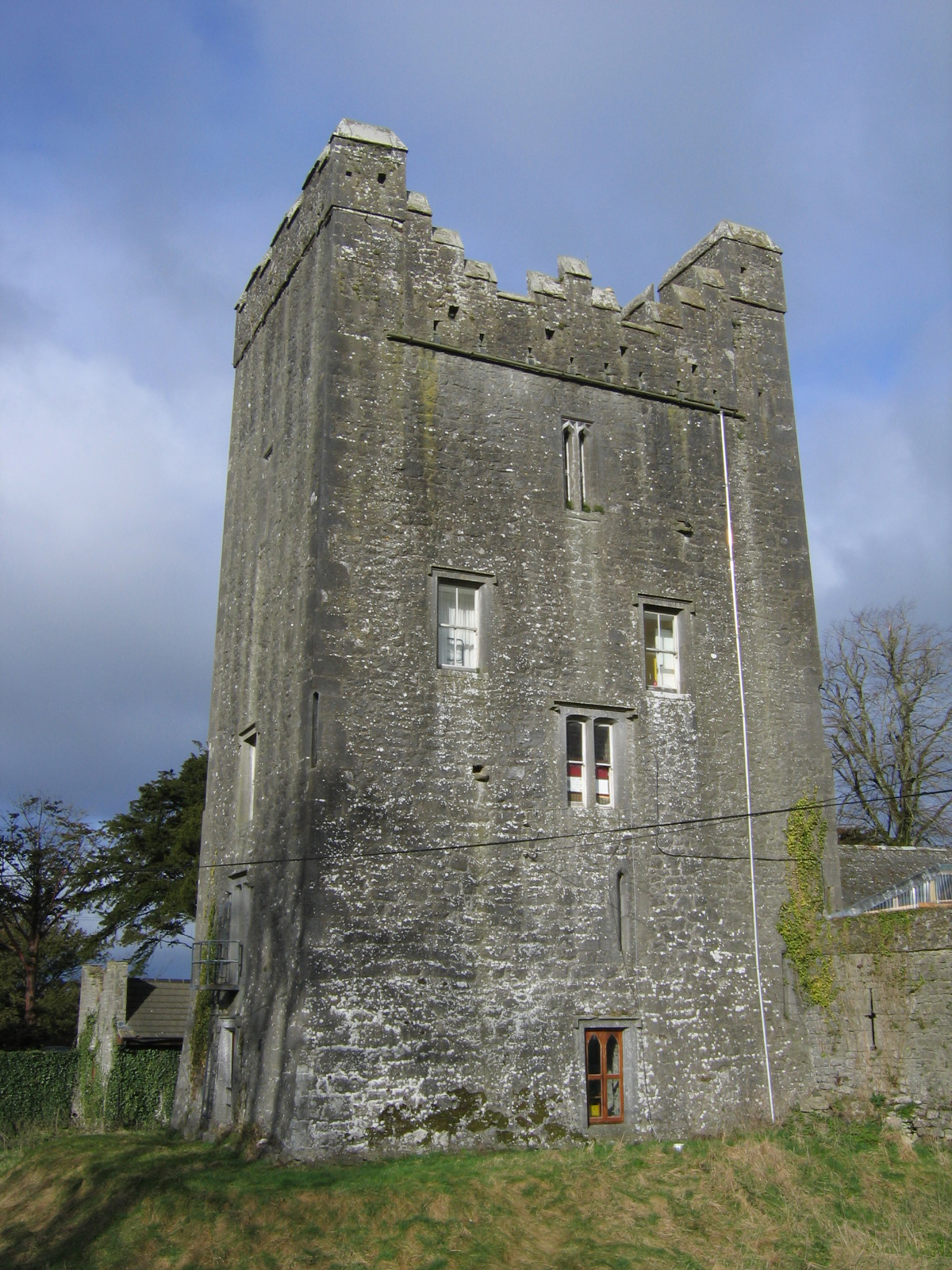 Foulksrath Castle, County Kilkenny, Republic of Ireland.